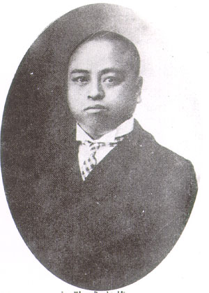 Tao Chengzhang 陶成章 (1878－1912)